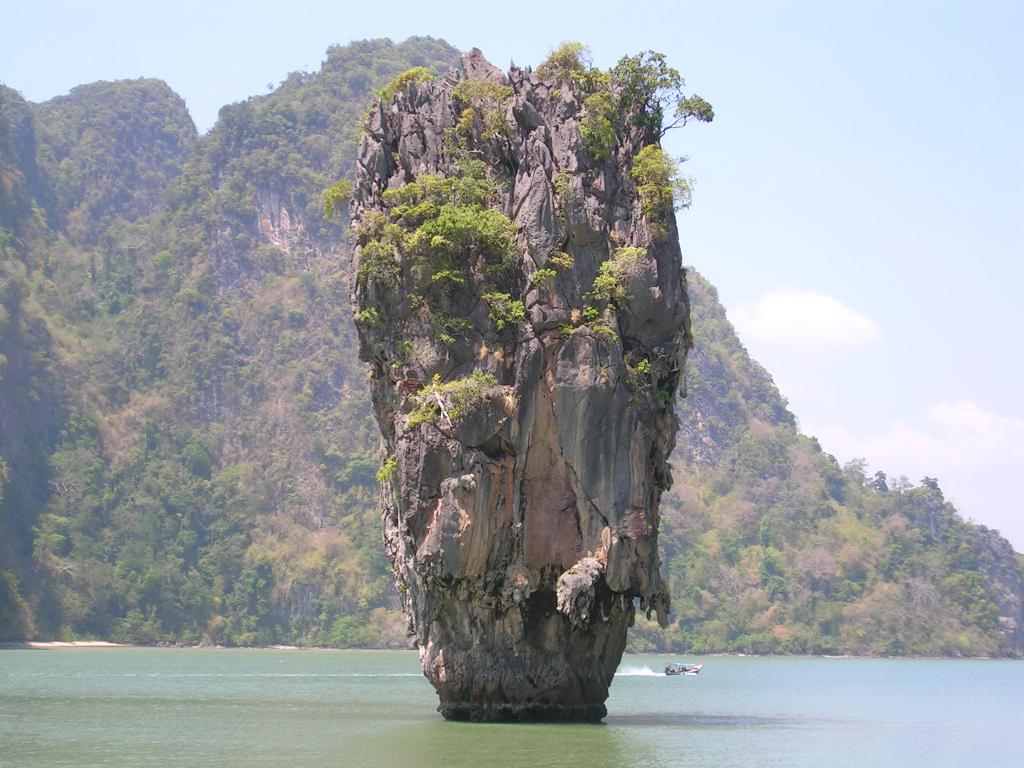 Sightseeing in Thailand. Photo by Brownie13.